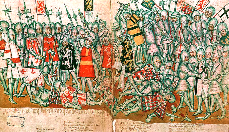 Battle of Worringen, 1288. Illustration from 1440/50 from a version (KBR mss. IV 684) of the chronicle "Brabantsche Yeesten" (ca. 1316-1350) of Jan Van Boendaele, called de Clerc (died 1365).